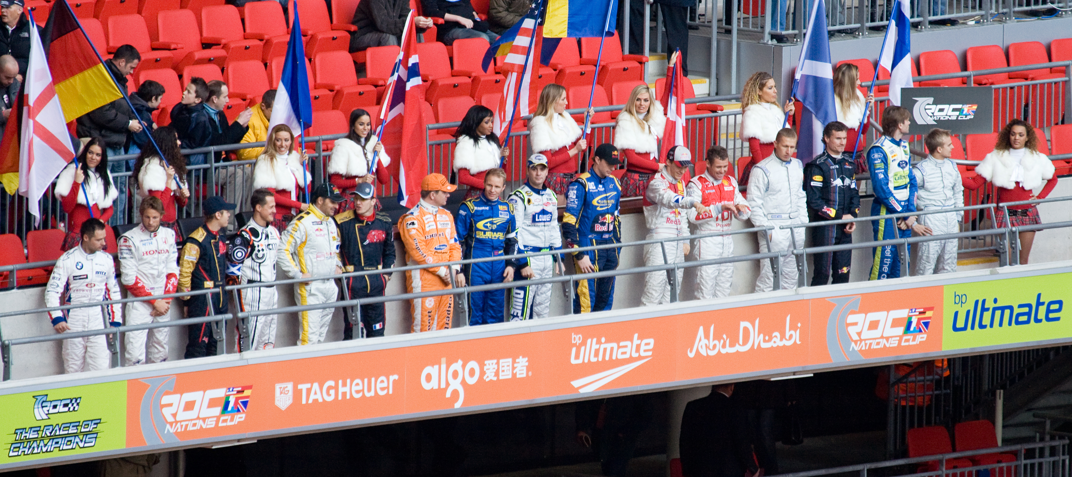 The 16 competitors (2 drivers each from England, Scotland, Germany, Scandinavia, USA, Finland, Norway and France) line up before the start of the Race of Champions 2007 in Wembley Stadium, London, UK.